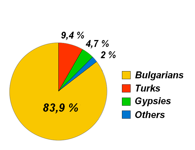 Ethnic groups in Bulgaria